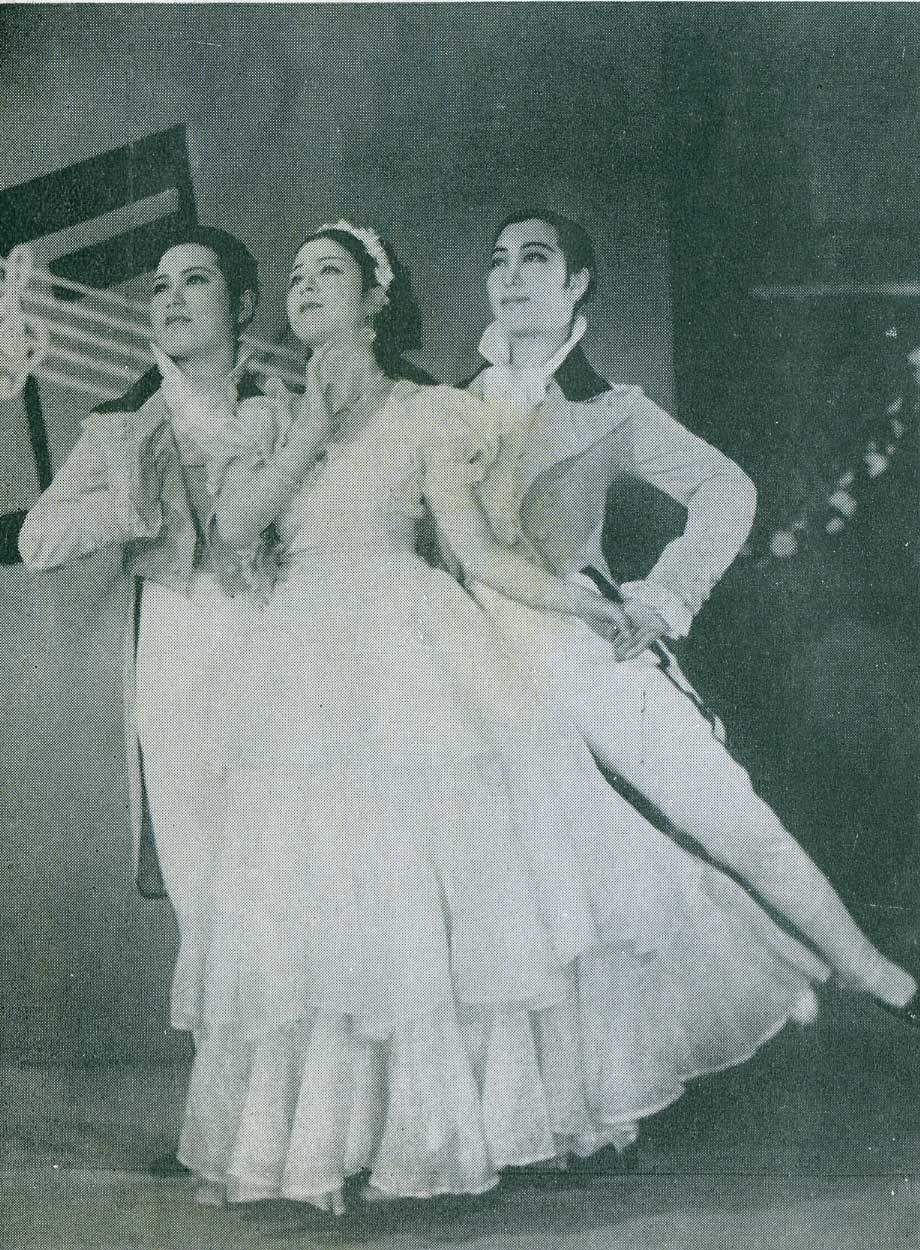 Dancing Young Man:Machiko Akeno, Dancing Girl:Tsubaki Katayama, Dancing Young Man:Akiko Miyajima